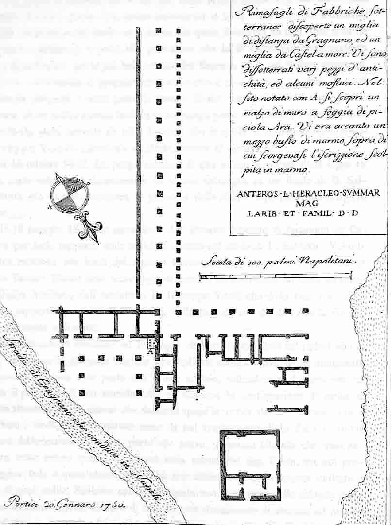 Plan of Villa of Anteros and Heracles